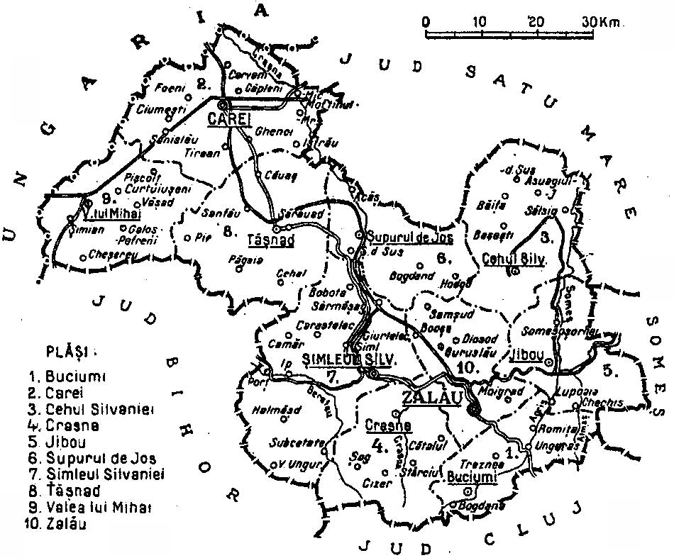 Map of Sălaj interwar county, Kingdom of Romania (1938).